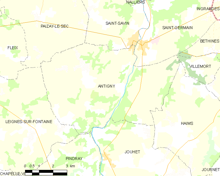 Map of French municipality Antigny